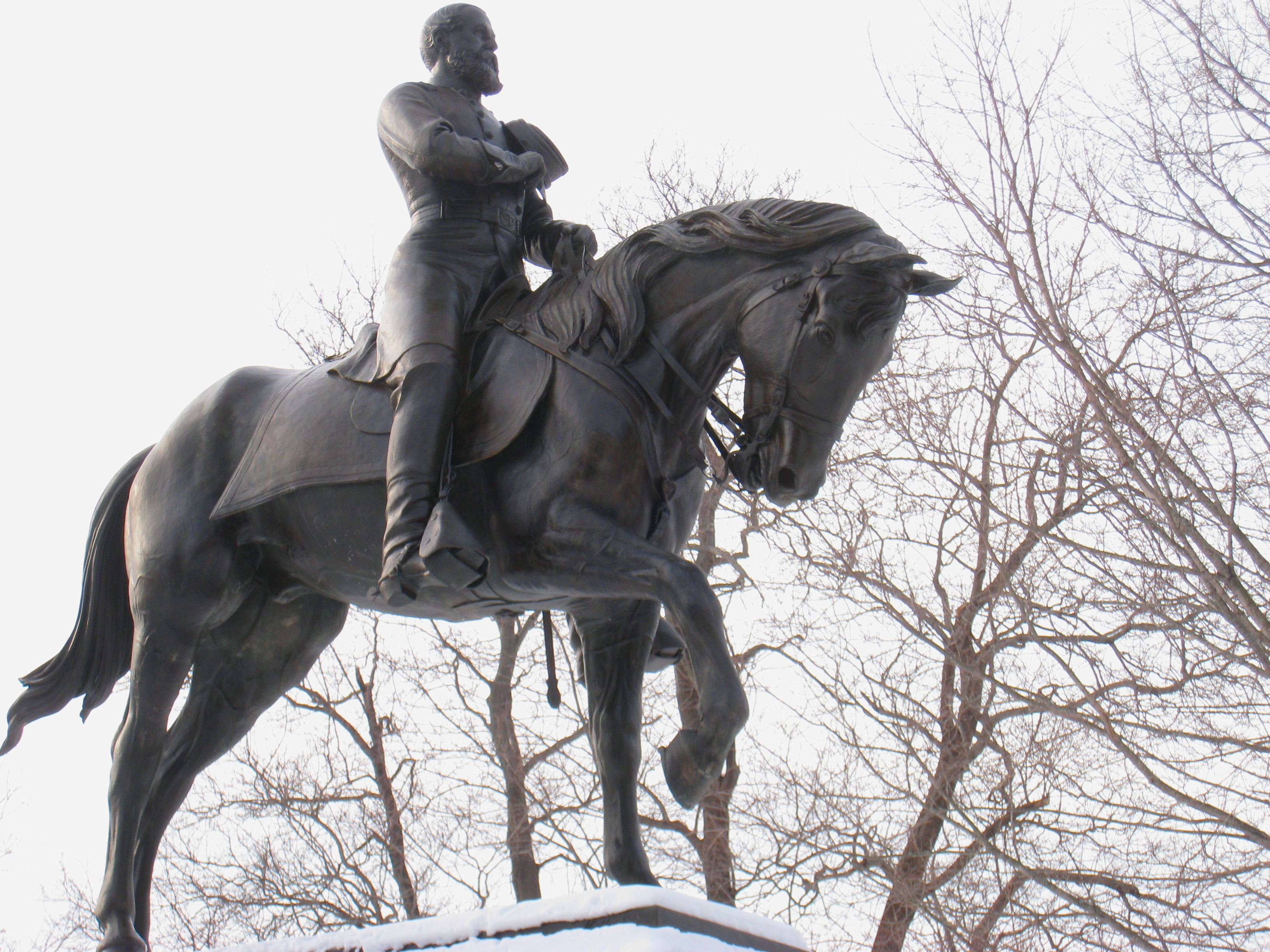 Statue commemorating birthplace of Gen. Fitz John Porter, Portsmouth, New Hampshire, USA. Front oblique view of statue. I took this photograph.